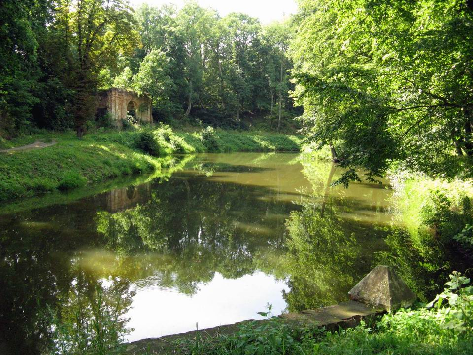 Then move on to the park where the ruins of the castle Sapieha (XVII c.). The park has an old pond.